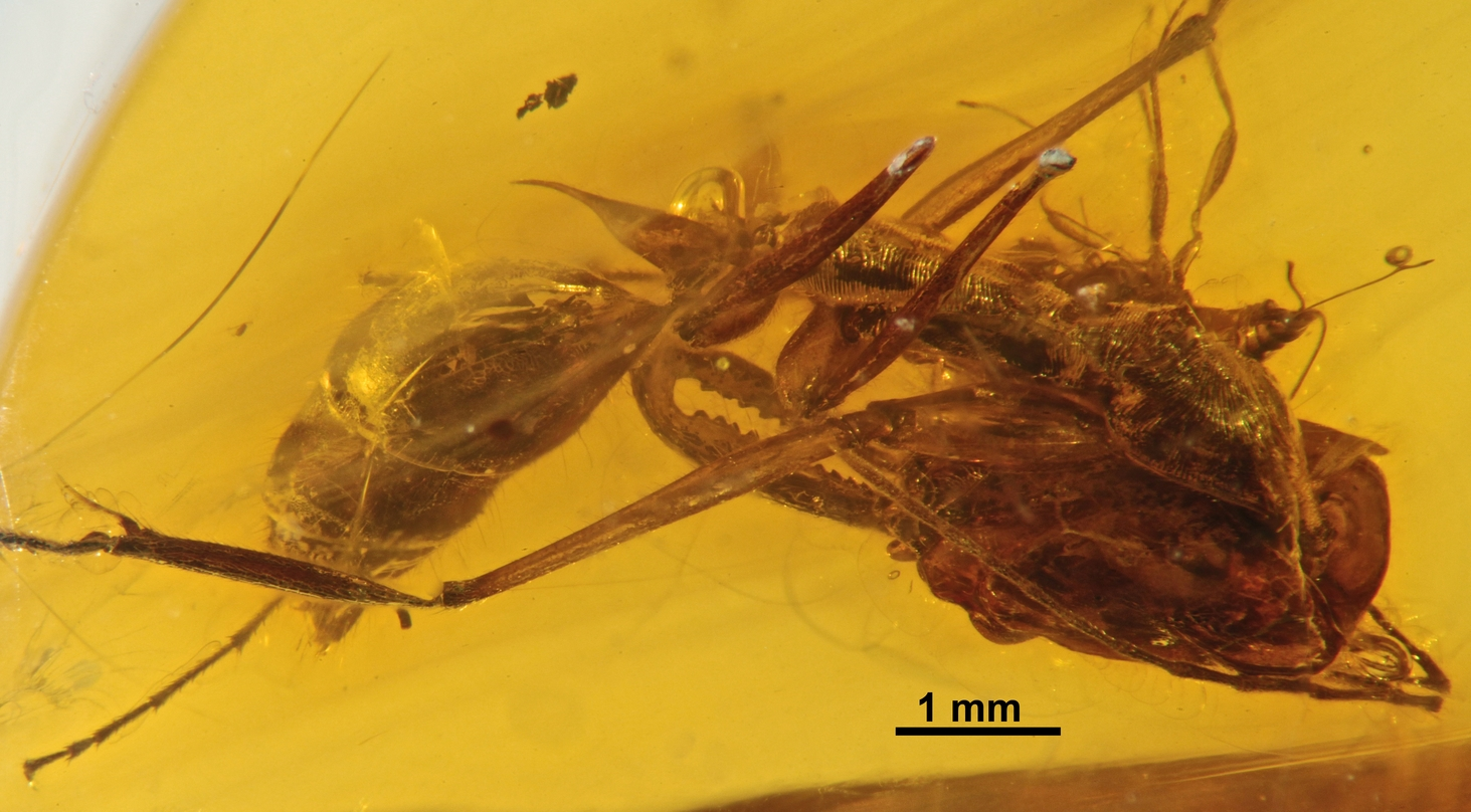 Profile view of the Odontomachus spinifer holotype worker. Dominican amber, Burdigalian; Dominican Republic, Hispaniola Staatliches Museum fur Naturkunde, specimen SMNSDO2215